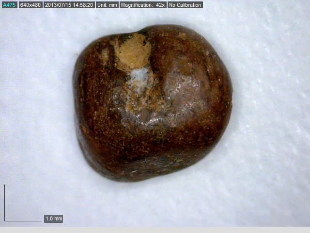 Bahianite Locality: Pico das Almas river, Paramirim das Crioulas, Érico Cardoso, Bahia, Brazil Dimensions: 5 mm x 4 mm x 2 mm